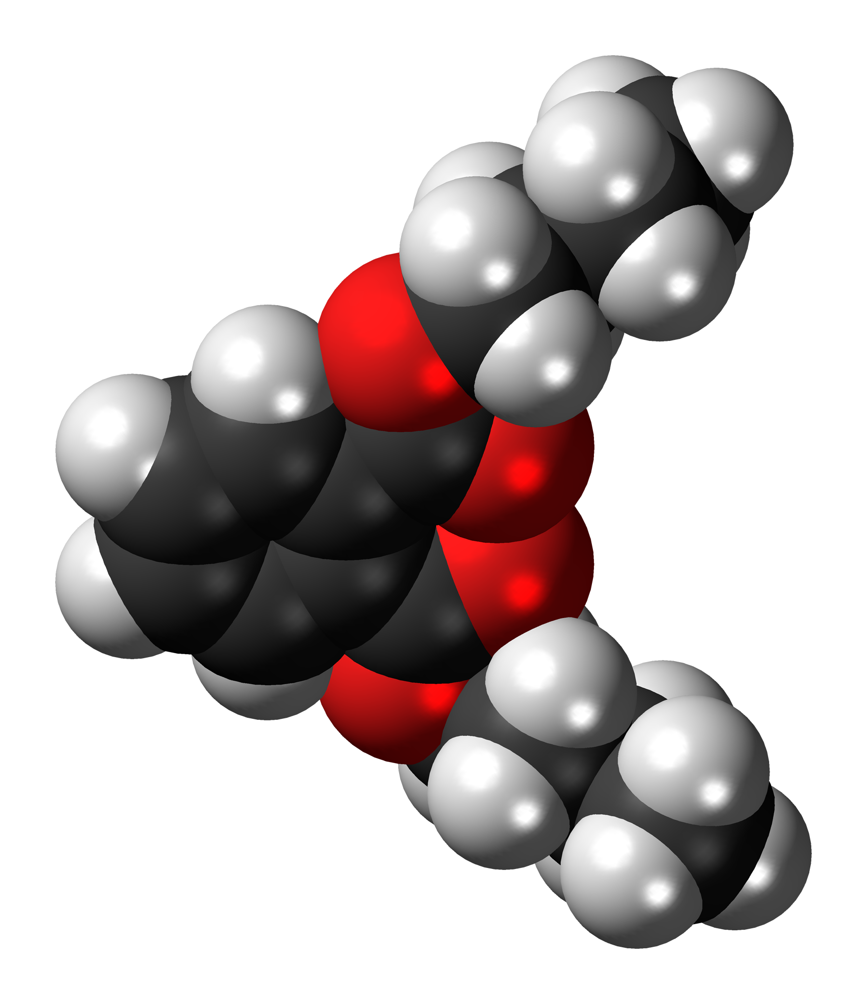 Space-filling model of the dibutyl phthalate molecule, a commonly used plasticizer. Colour code: Carbon, C: black Hydrogen, H: white Oxygen, O: red